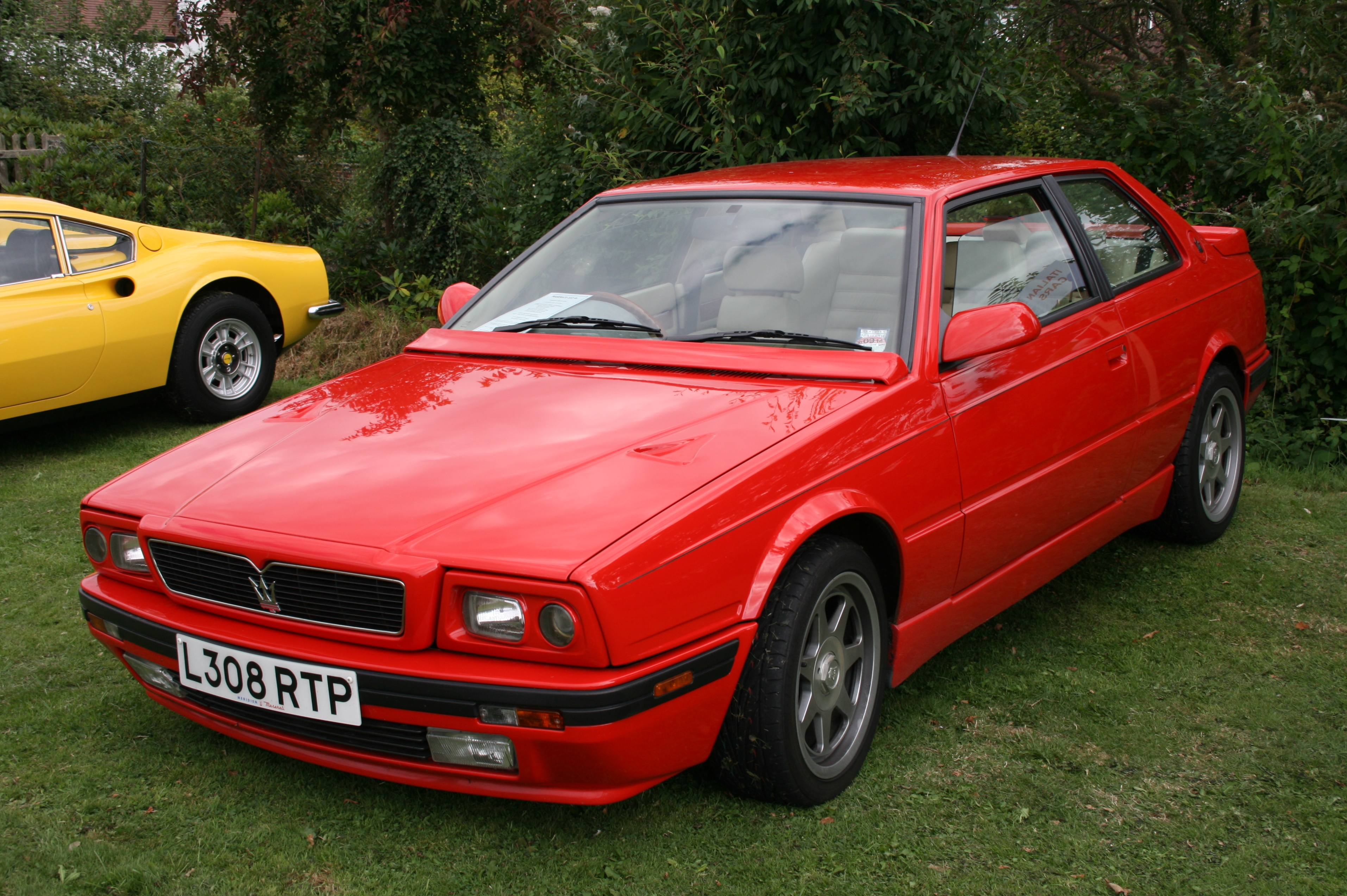 Capel Classic Car & Bike Show